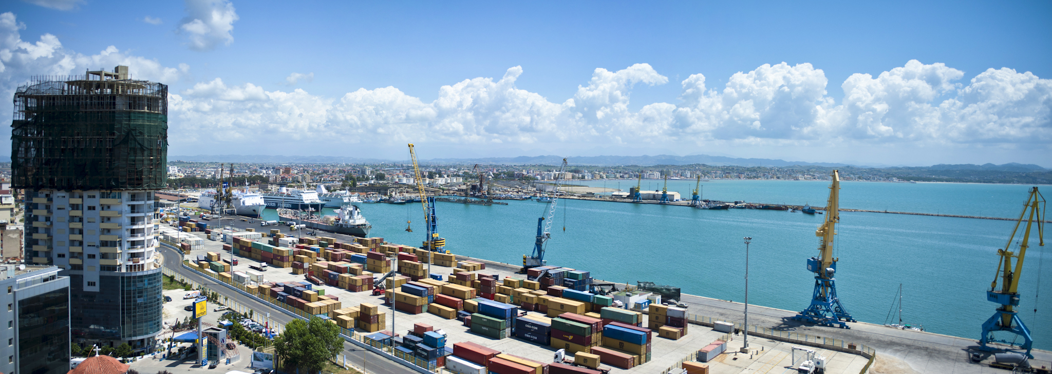 Stitched Panorama of Durres